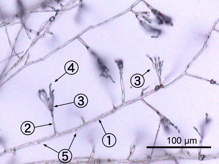 microscopic image of Penicillium sp. (environmental isolate) with annotation. Magnification:200 hypha conidiophore phialide conida septa